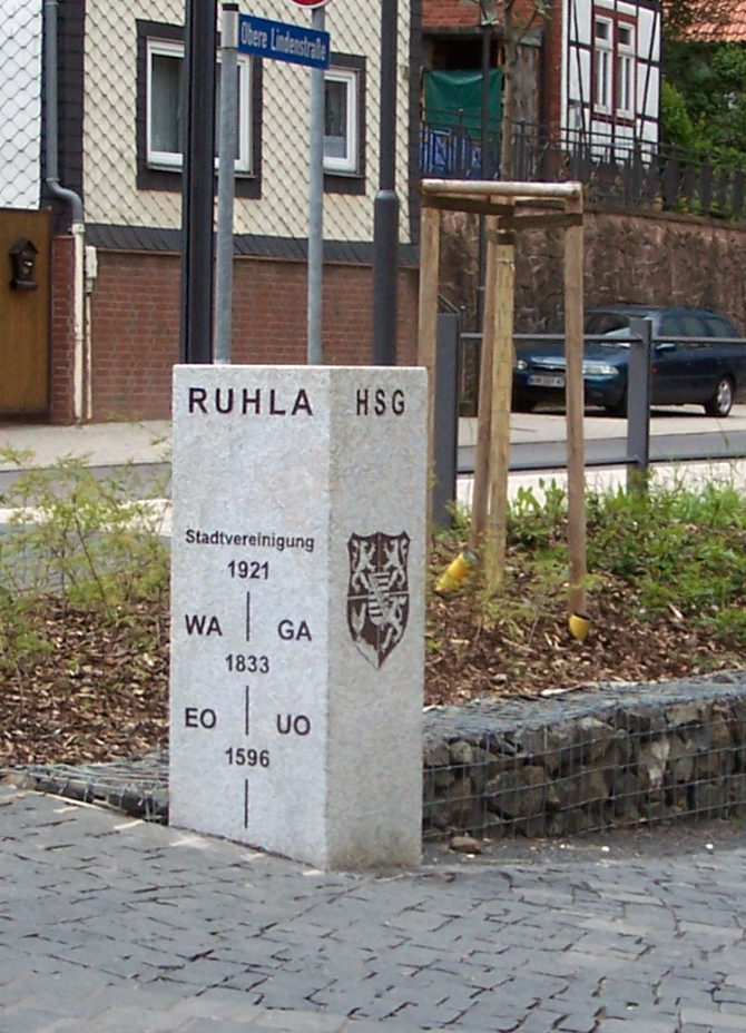 Boundary stone, a monument, remembering the "Ruhlaer Teilung", a period of separations in local history.